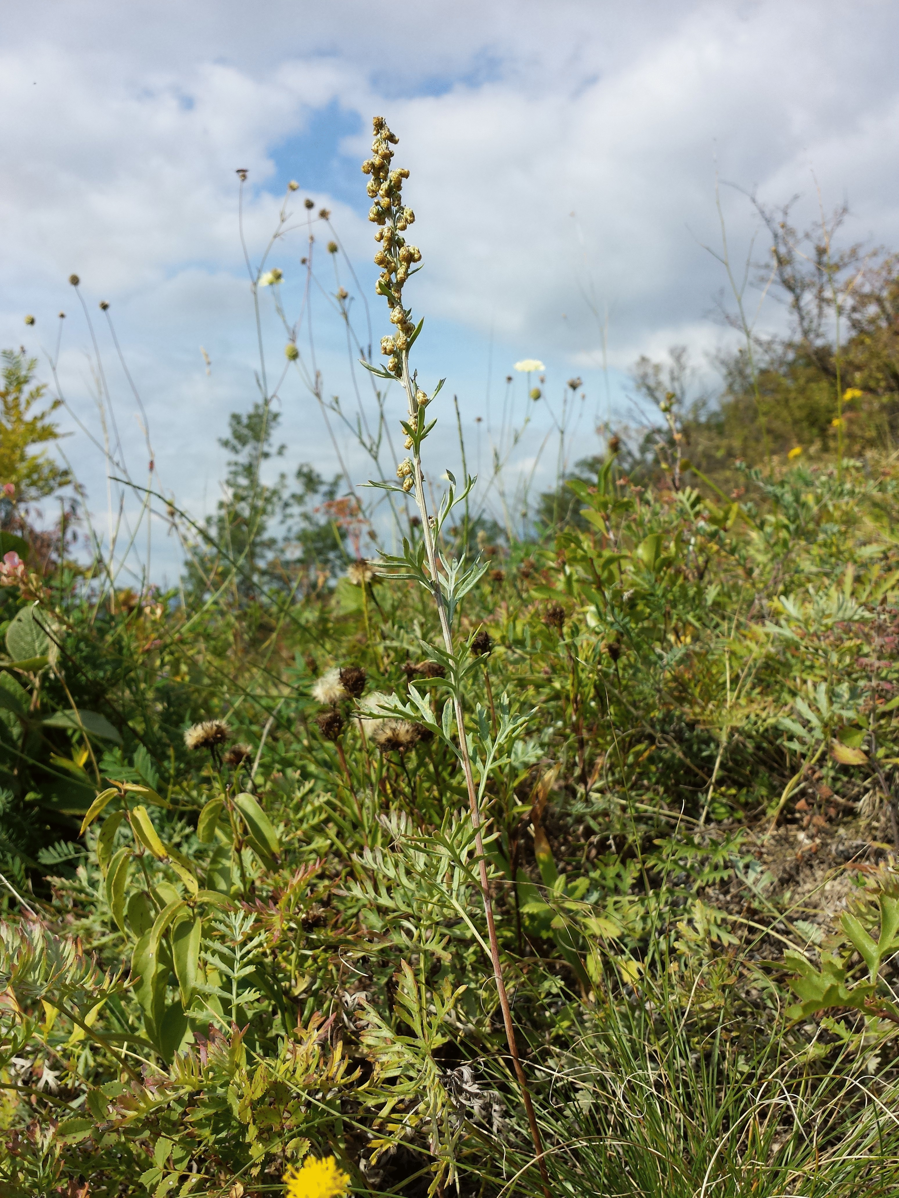 Habitus Taxon: Artemisia pancicii (sensu Fischer et al. EfÖLS 2008, det. M. A. Fischer 2013-09-22) Location: Bisamberg near Vienna, district Korneuburg, Lower Austria - ca. 320 m a.s.l. Habitat: rock steppe